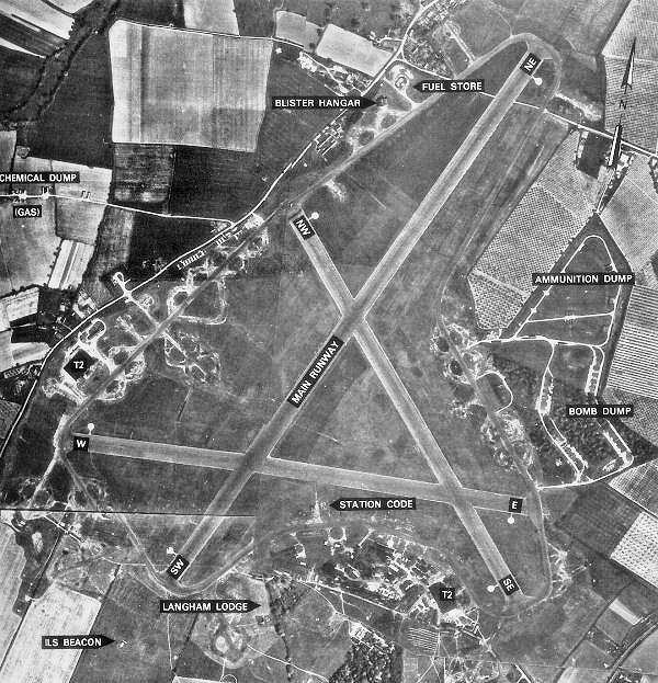 Aerial photograph of Boxted Airfield, England.